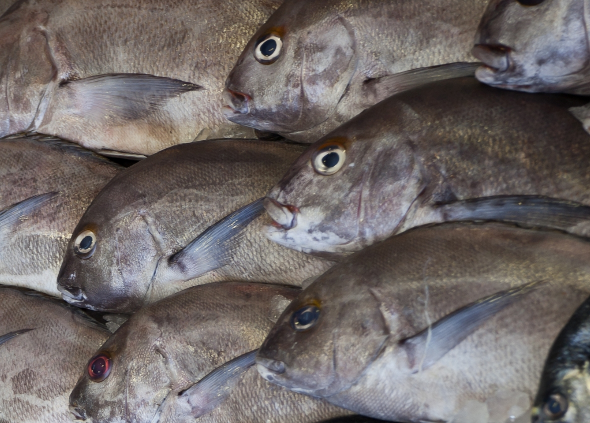 Plectorhinchus mediterraneus form a market in canary islands